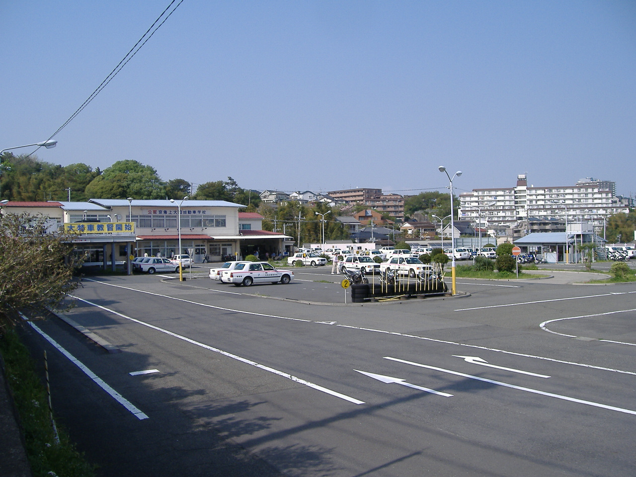 Keikyu Drivingschool Kamiooka (Yokohama, Japan)